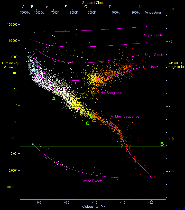 The positions of the three stars of the Rho Geminorum system on the Hertzsprung-Russell diagram. As Rho Geminorum B does not have a known B-V or temperature, a line through its absolute magnitude is drawn instead. If it is an M-dwarf, the expected B-V is approximately 1.53 which is consistent with a M3V star.